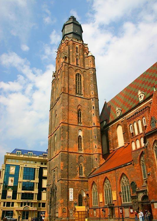 Church of St. Elisabeth in Wrocław